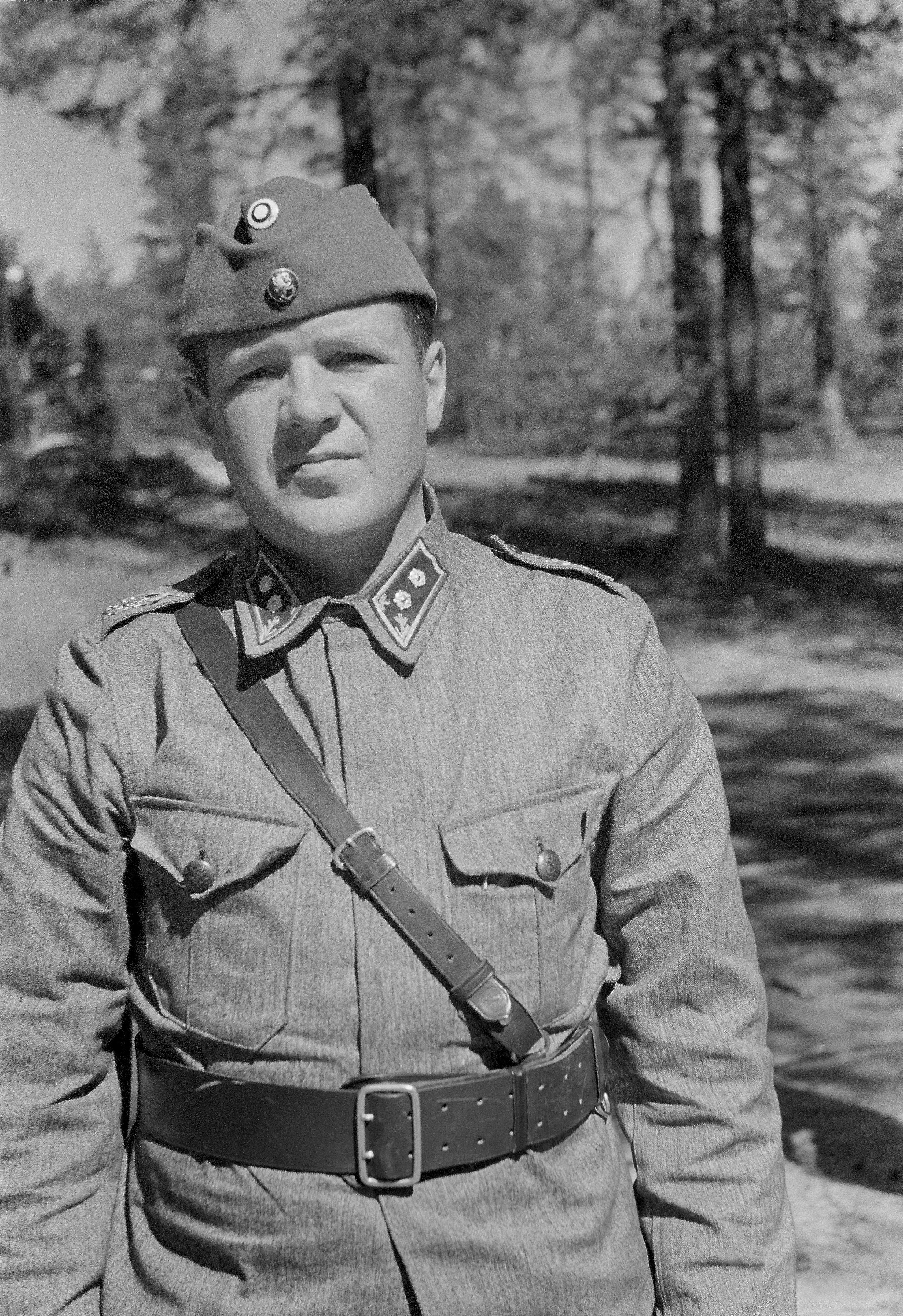 Finnish information officer, Lieutenant Arvo Alanne in Uhtua Eastern Karelia 26.6.1941